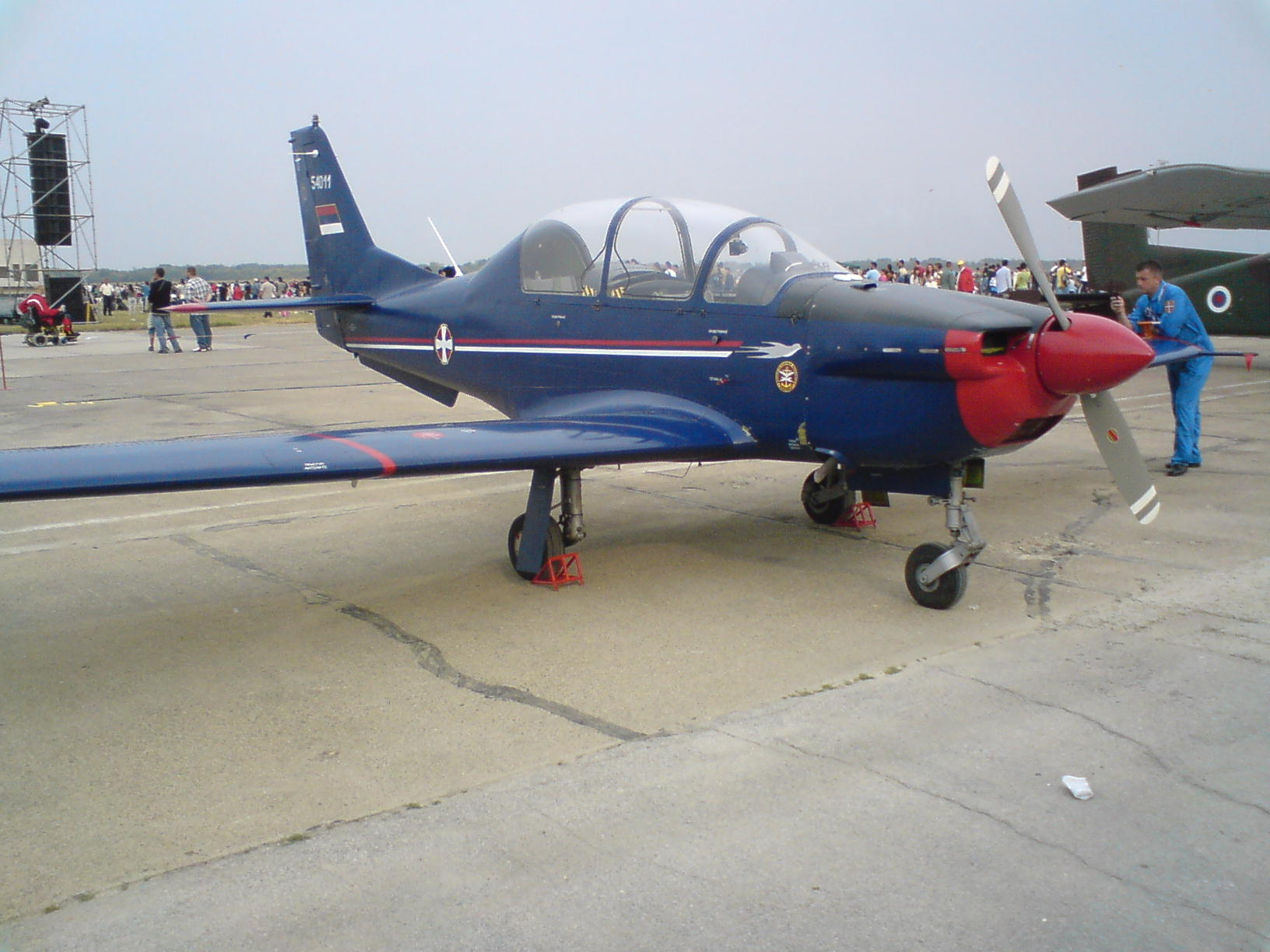 Lasta 95 trainer aircraft